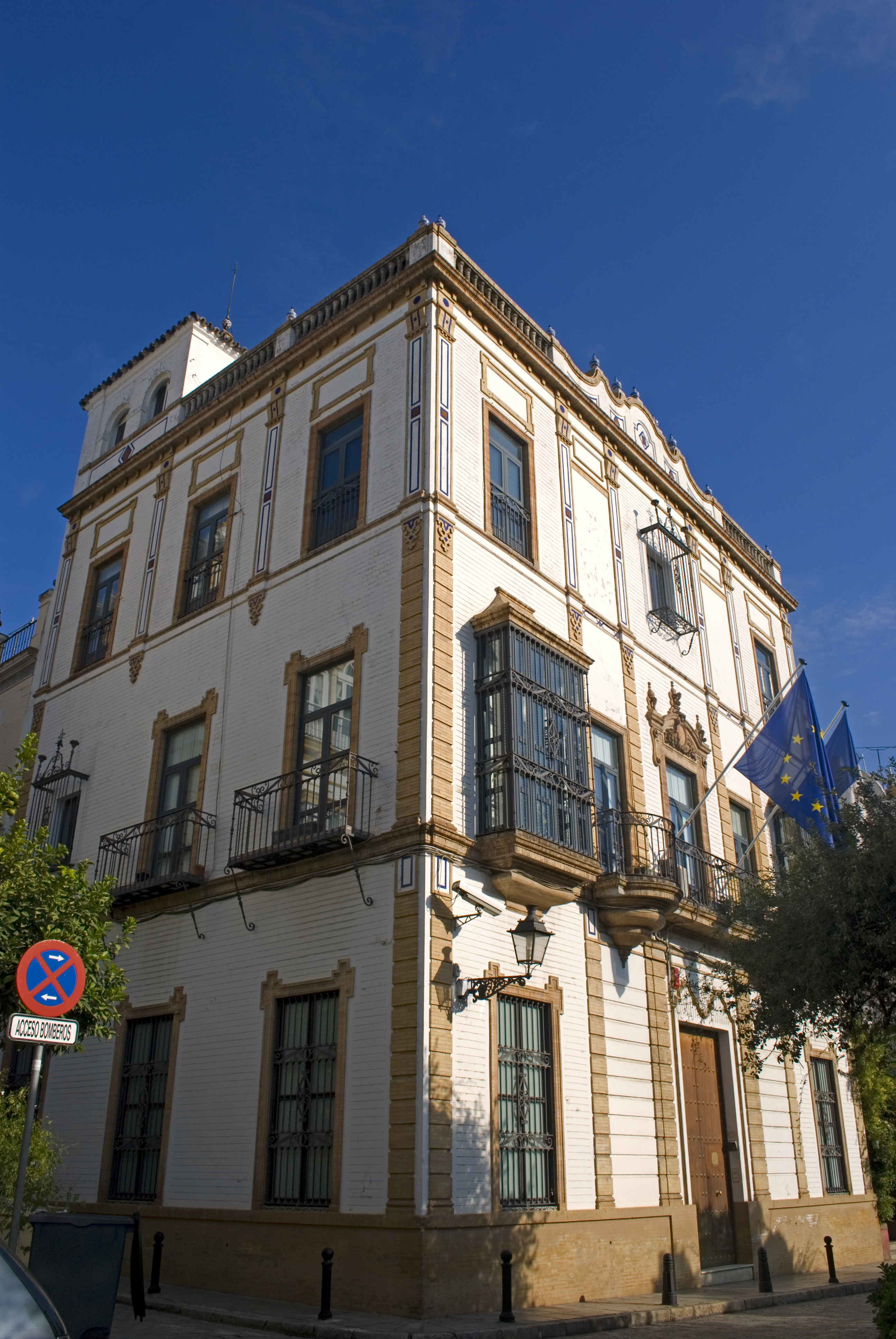 Square of Santa Cruz, Seville